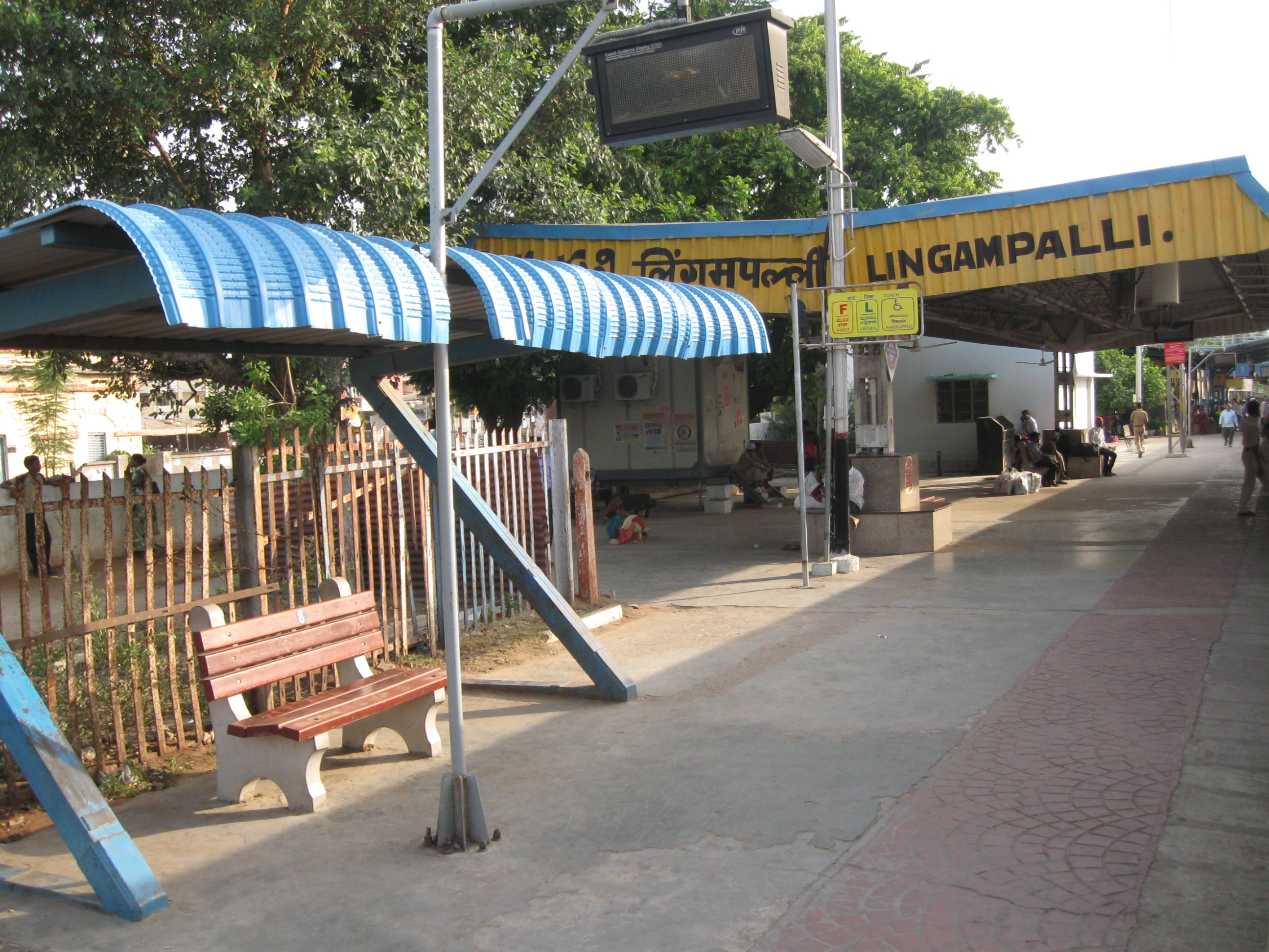 Platform no. 1 of Lingampally Railway Station